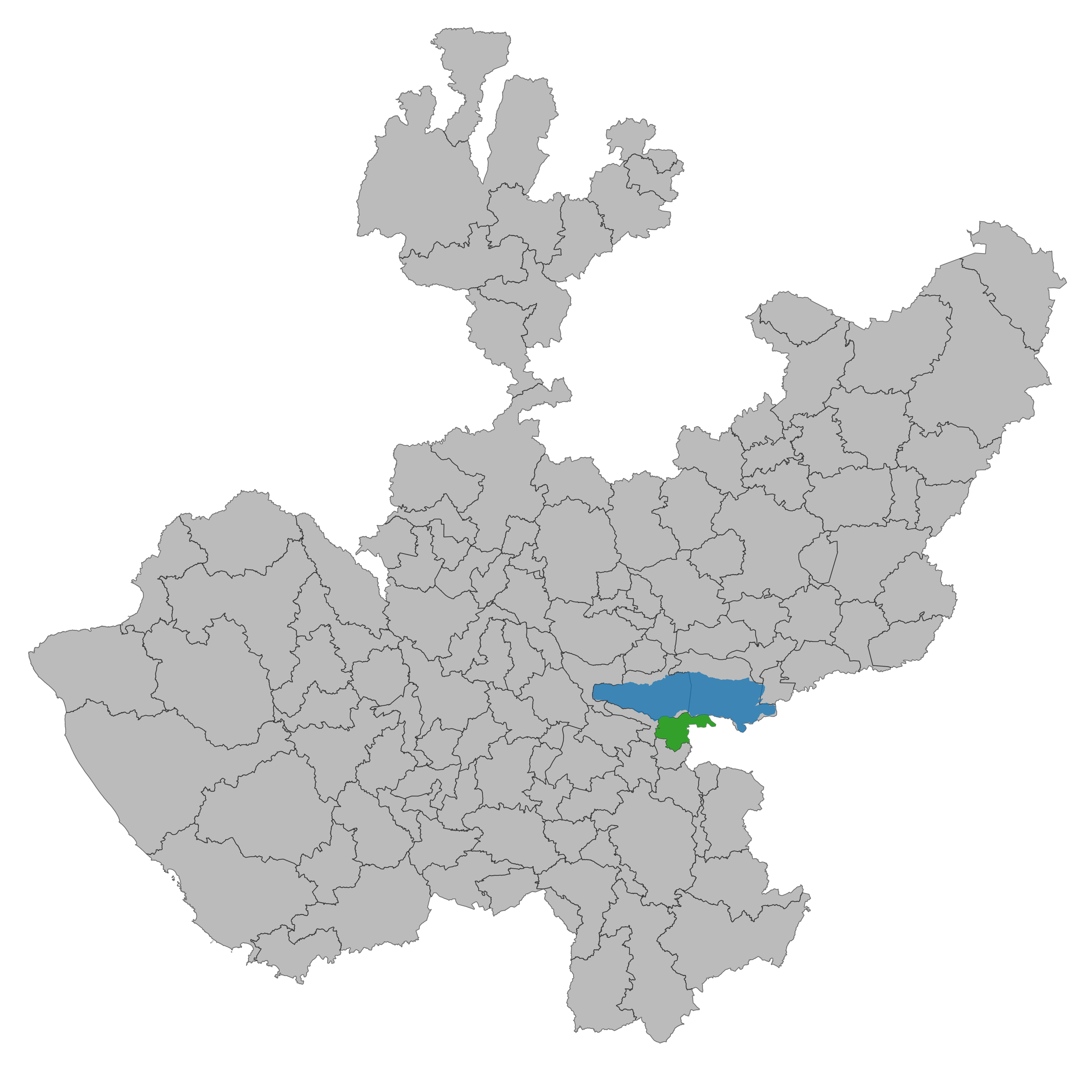 Municipality of Jalisco. Prepared with the software QGIS version 2.8.2 Wien & with information of SCINCE 2010 version 05/2013